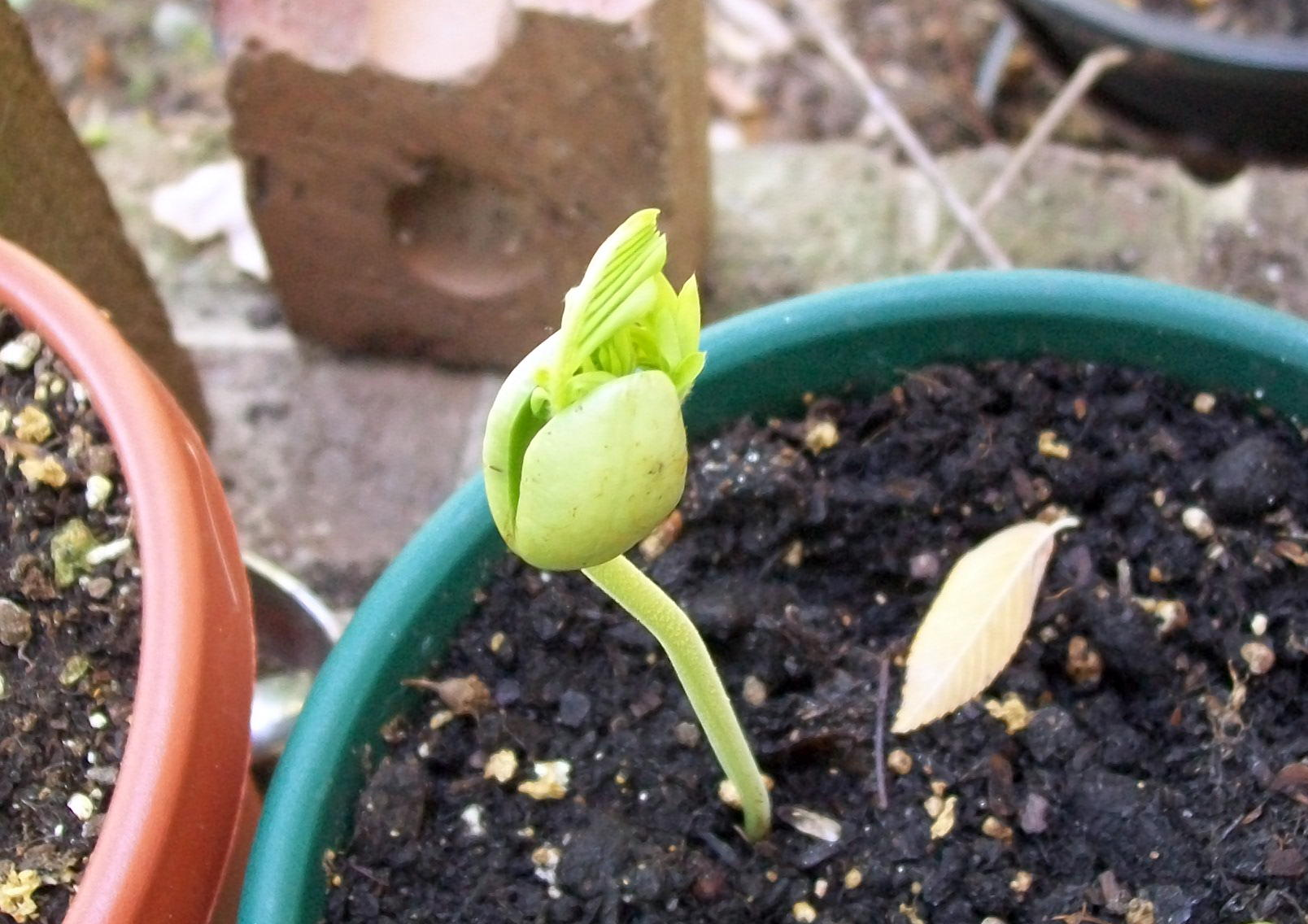 3-day-old tamarind sprout, Chapel Hill, North Carolina